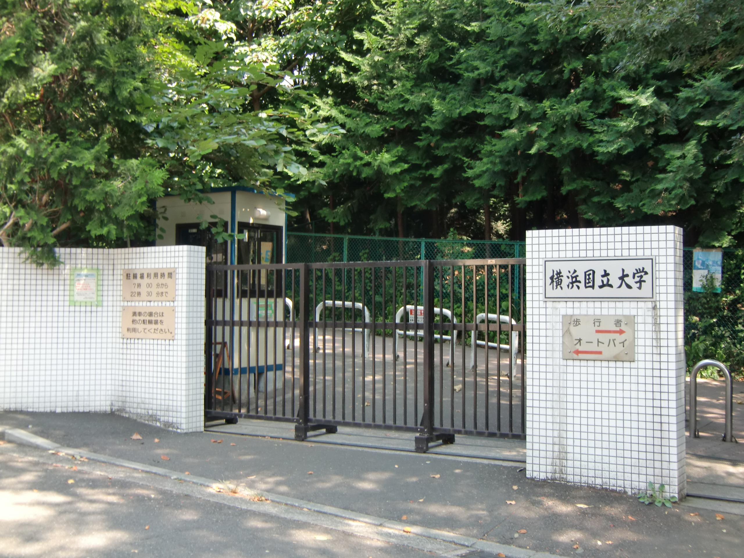 South side gate at Yokohama National Univ(YNU), Yokohama, Japan.